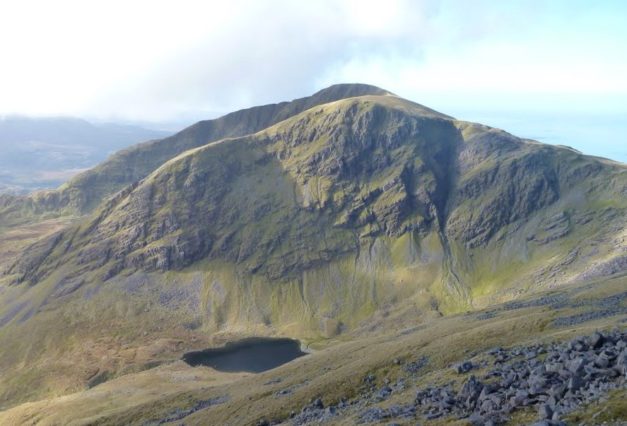 Mweelrea from Ben Lugmore, showing its northern corrie lake of Lough Bellawaum (the southern corrie lake of Lough Lugaloughan is obscured by the spur). Mayo, Ireland